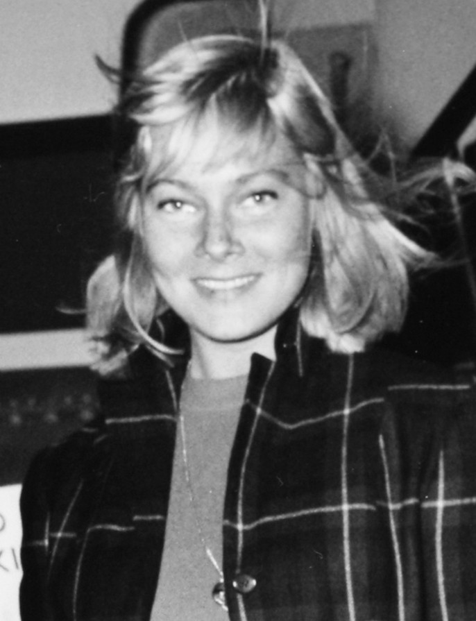 Maybritt Wilkens, Actress, Sweden at Kastrup Airport CPH, Copenhagen